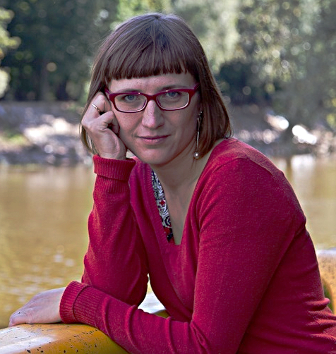 Gea Kangilaski, the candidate for mayor in Tartu 2013 for the election coalition Vabakund